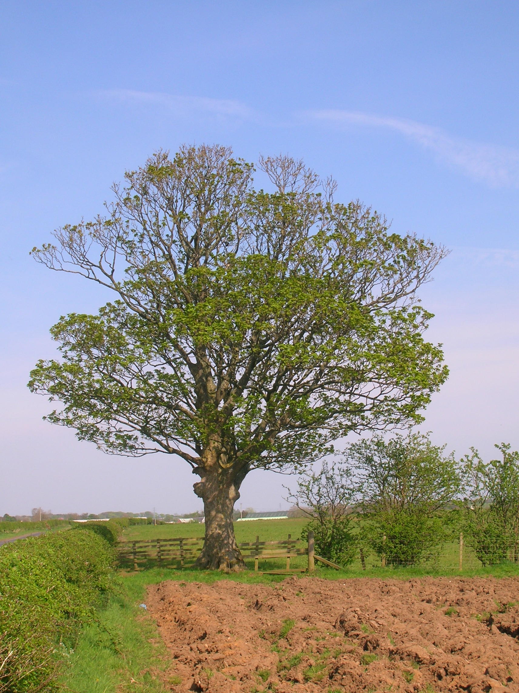 Selena's Tree. A sycamore at Eglinton, Ayrshire, Scotland.